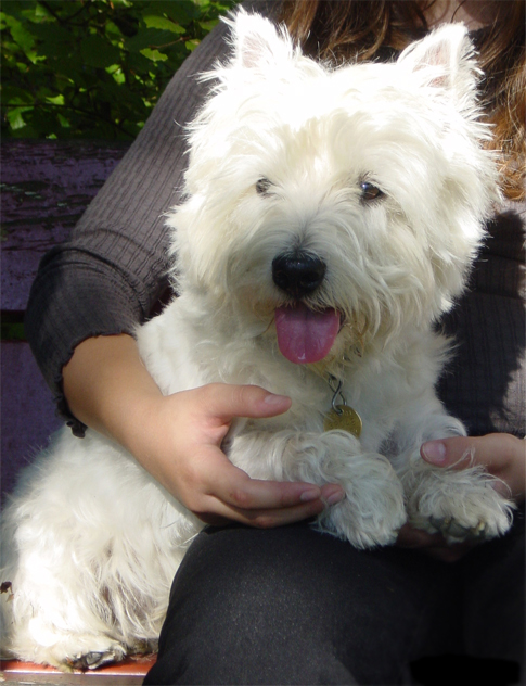 West Highland White Terrier called "Thierry" in the lap of the owner.